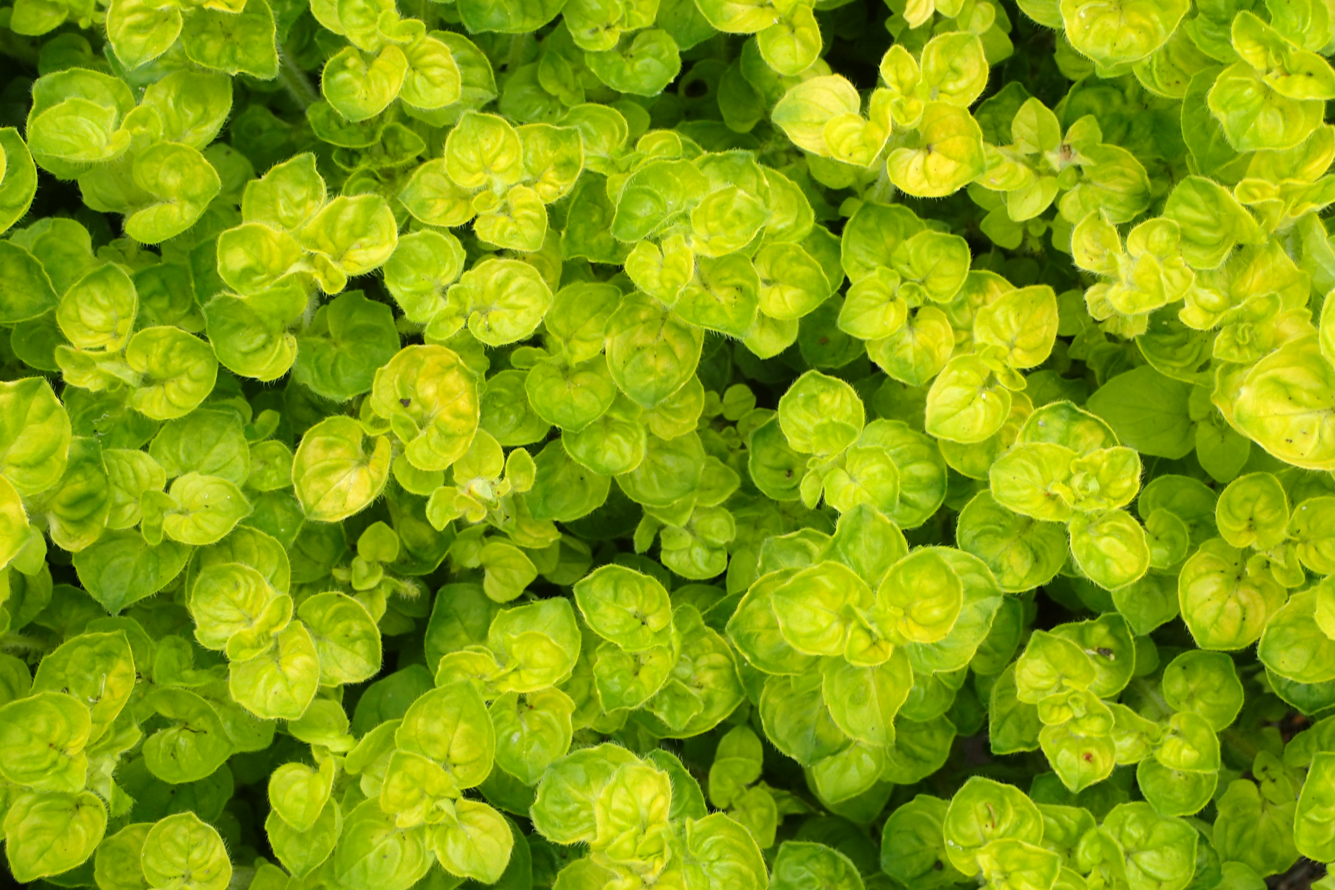 Origanum onites 'Aurea' in Wellington Botanical Garden